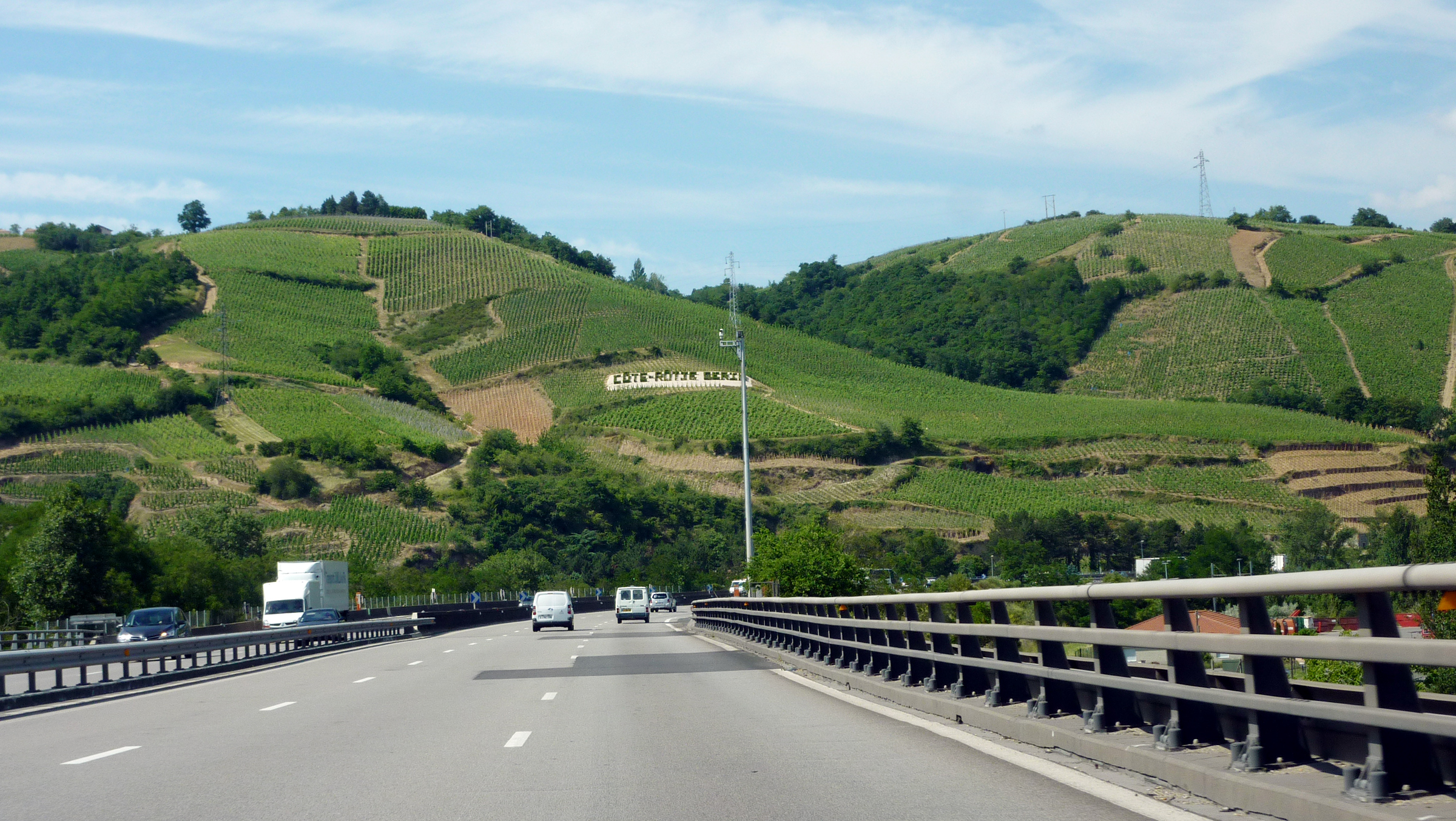 Autoroute A7 near Vienne